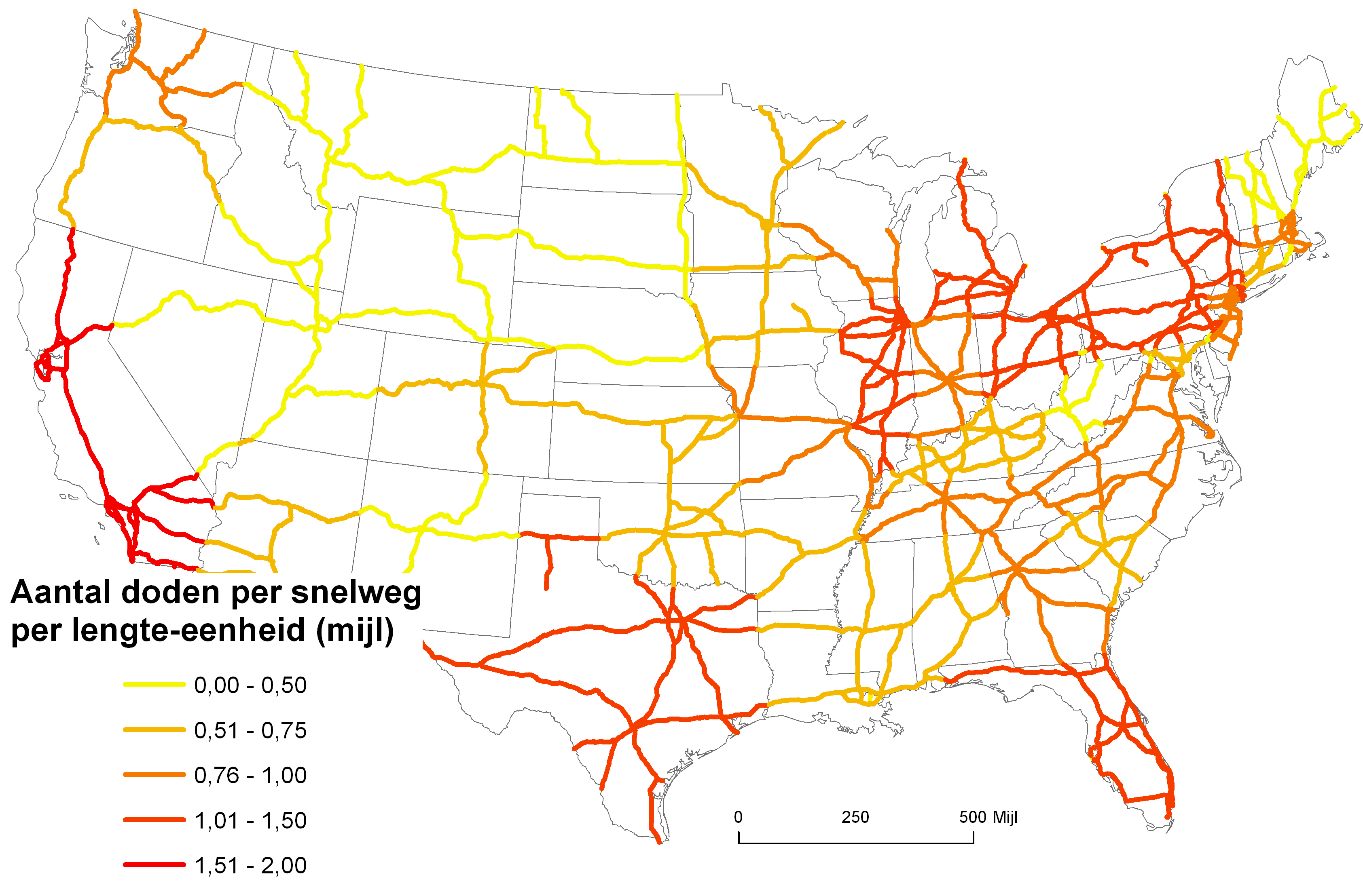 Map of the number of traffic deaths on freeways/interstates in the United States. The distribution of the deaths to specific roads is fake, but based on the actual number of deaths (42,636) in 2004, and a road length of 50,000 miles. For the sake of example, the deaths have been allocated to the states based on a formula that's unlikely to match reality. Thus, this may be a useful example of a particular style of map, but not very useful for illustrations of the United States.